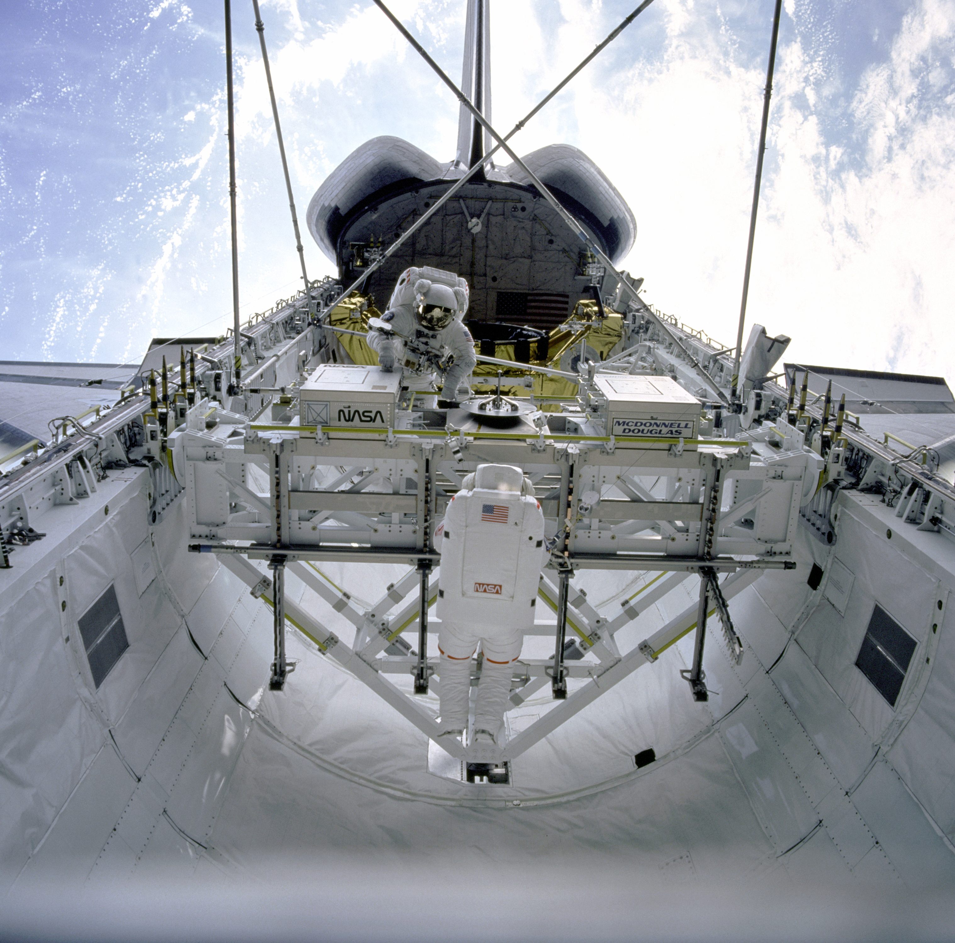 STS-49 Mission Specialist (MS) Kathryn C. Thornton (foreground) releases a strut from the Multipurpose Experiment Support Structure (MPESS) strut dispenser during Assembly of Station by Extravehicular Activity Methods (ASEM) procedures in Endeavour's payload bay. MS Thomas D. Akers, positioned on the opposite side of the MPESS, waits for Thornton to hand him the final strut. The two astronauts are building the ASEM structure during the mission's fourth EVA. The ASEM structure, locked in at four corners to payload retention latch assemblies (PRLAs), rises above the payload bay. In the background are the Intelsat cradle, the vertical tail, and the orbital maneuvering system (OMS) pods. The pale blue and white Earth is visible below.